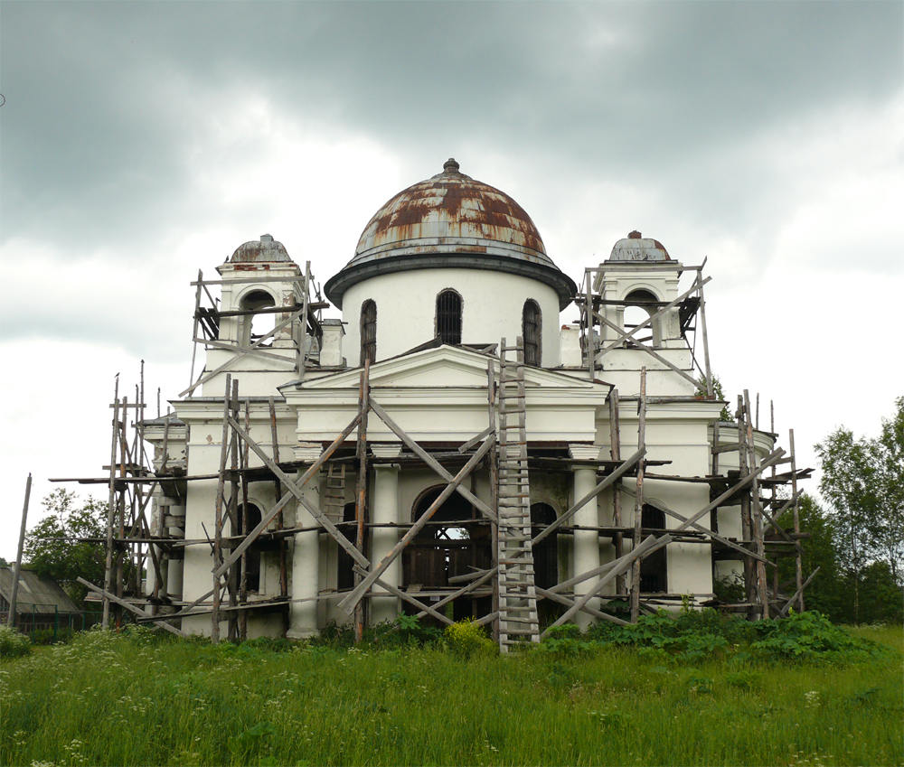 The Intercession of the Theotokos churche in Ruchi village. Krestetsky district, Novgorod oblast, Russia